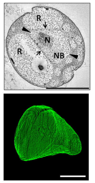 Electron micrograph (top) and three-dimensional reconstruction of the nuclear body (bottom) of the bacterium Gemmata obscuriglobus, a planctomycete noted for its highly complex membrane morphology. The top panel labels the nuclear body (NB), nuclear DNA (N), and riboplasm (R). The nuclear body appears surrounded by a membrane that is a single layer in some places (arrowheads) and a double membrane in others (arrows). Top panel scale bar = 1µm, bottom panel scale bar = 500nm. This image is adapted from Figure 1A (top right) and 1B (left) of the following paper: Sagulenko E, Morgan GP, Webb RI, Yee B, Lee K-C, Fuerst JA (2014) Structural Studies of Planctomycete Gemmata obscuriglobus Support Cell Compartmentalisation in a Bacterium. PLoS ONE 9(3): e91344.